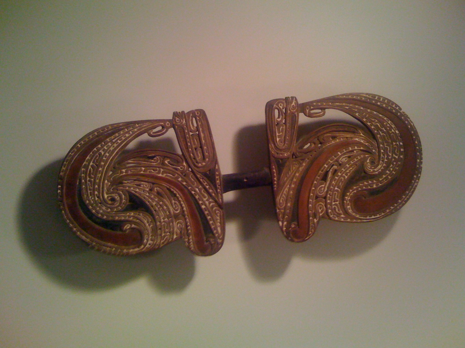 A 19th century ancestral dance shield representing a frigate bird (Kai Diba). From the Trobriand Islands, New Guinea. Made of wood and polychrome. Part of the collection of the Baltimore Museum of Art.